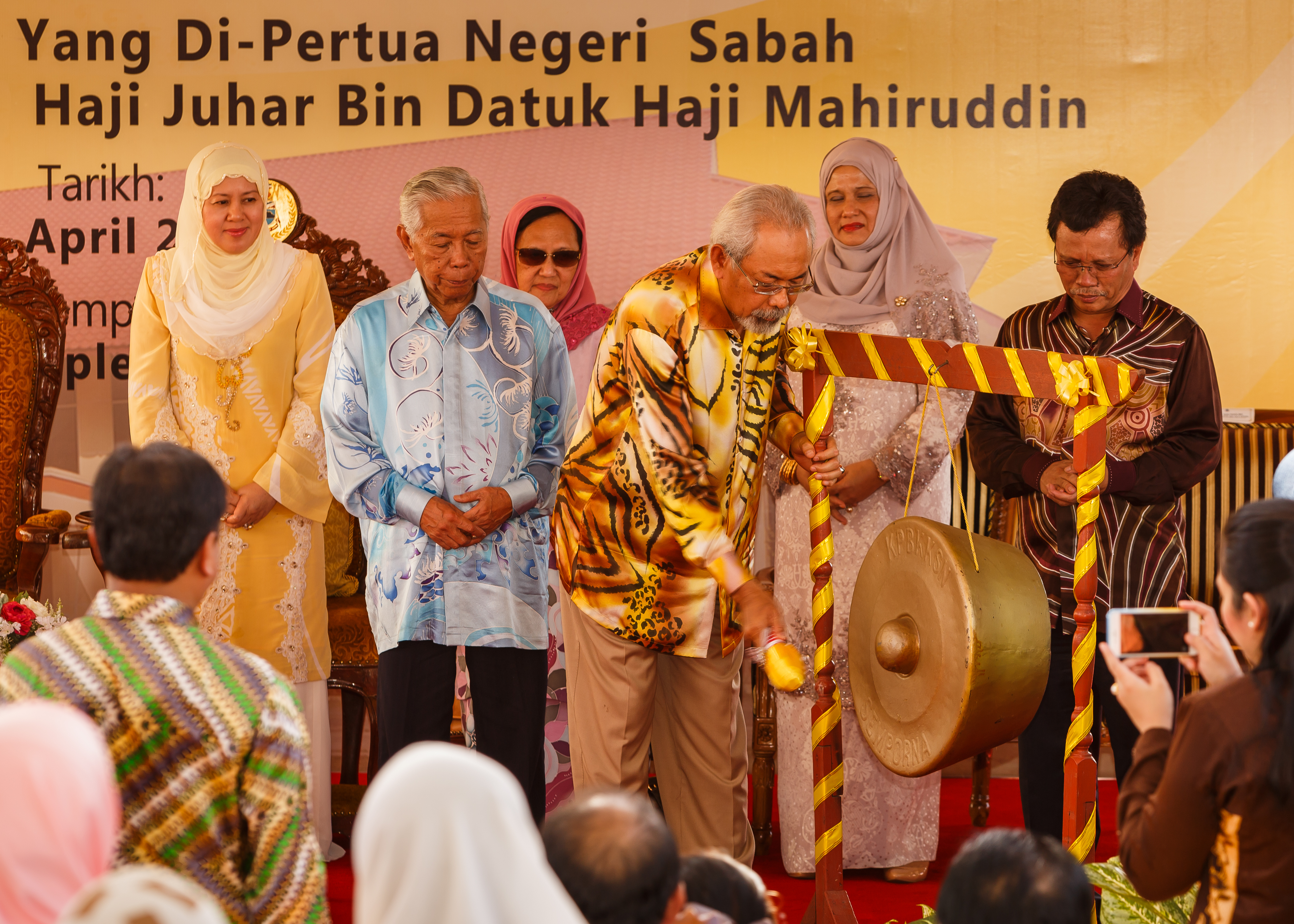 Semporna, Sabah: Head of State Tun Juhar Mahiruddin is inaugurating the Tun Sakaran Museum by a traditional beating of gong. He is assisted by former Head of State Tun Sakaran Dandai